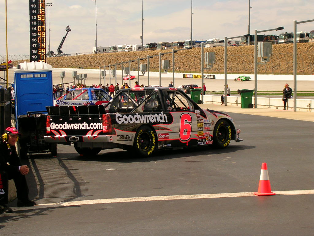 Ron Hornaday's No. 6 GM Goodwrench Service Chevrolet at Atlanta Motor Speedway in 2005